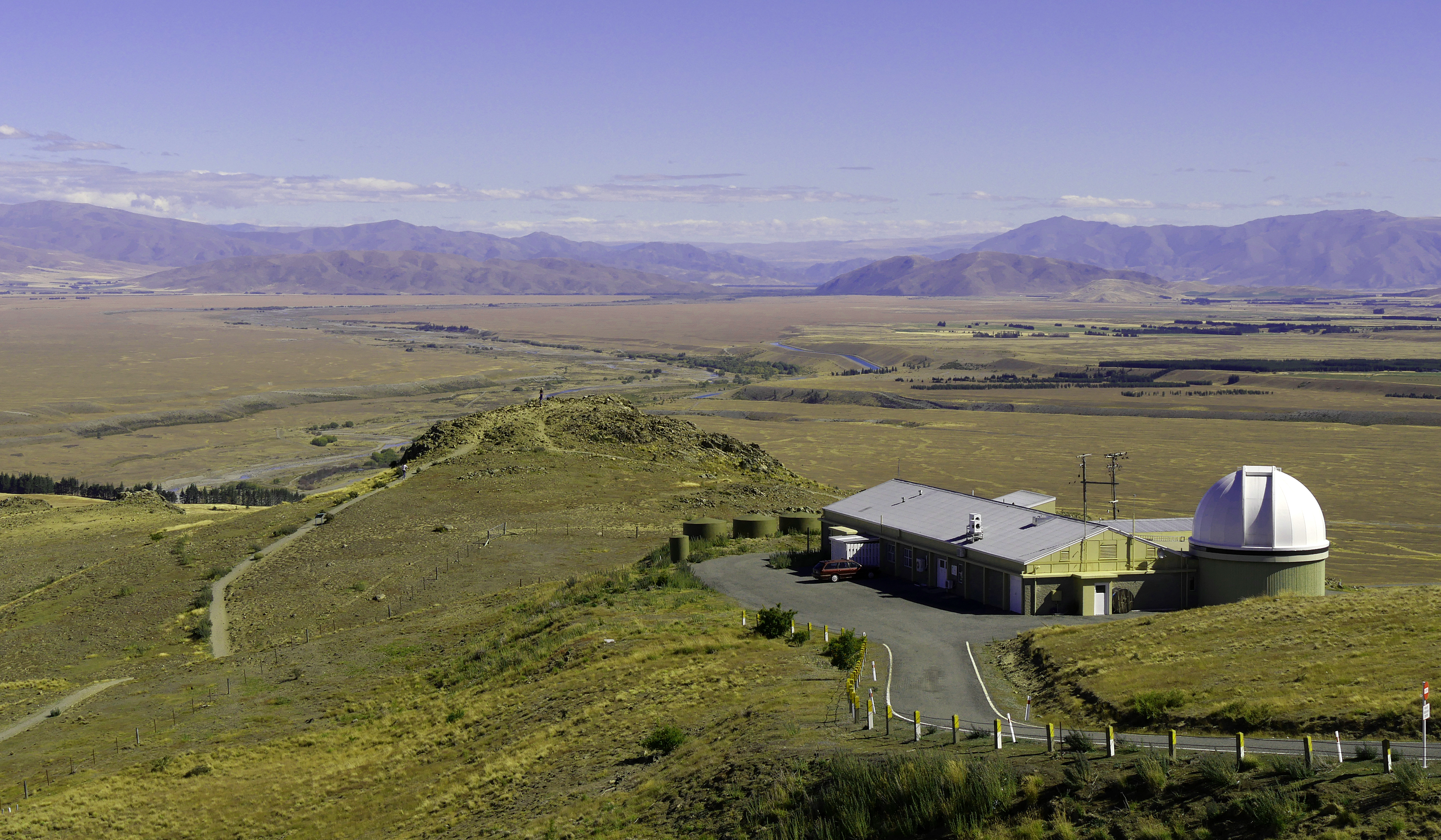 Mt John University Observatory, Mount John at Lake Tekapo, Mackenzie District, Canterbury Region, South Island, New Zealand (view to the south)